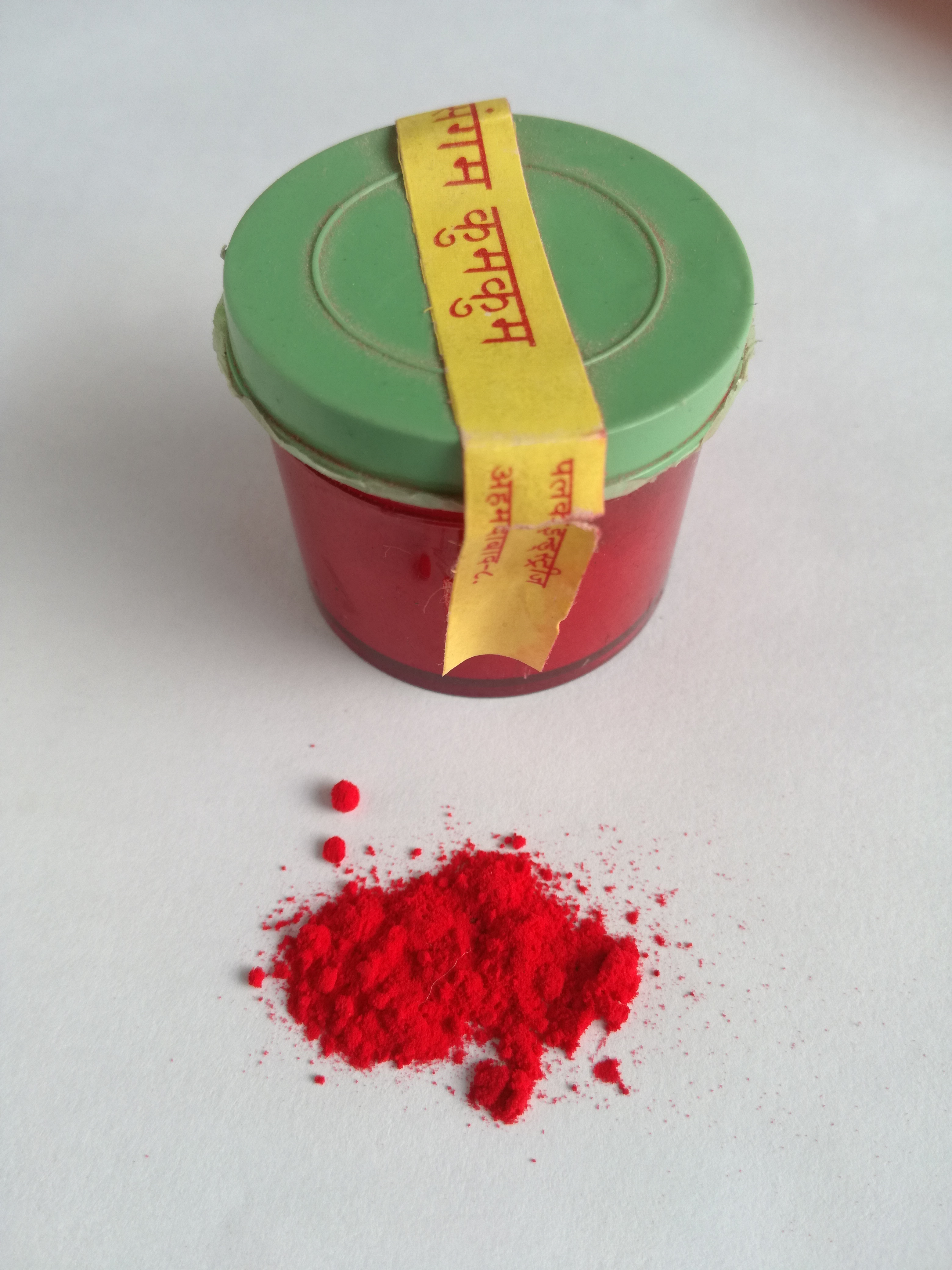 In Tharparkar on first day of Diwali i.e. Dhanteras, females do Gau Puja which includes Sing Abhishek (ritual of applying kumkuma on sing) during which they feed laddu to Gau Mata.